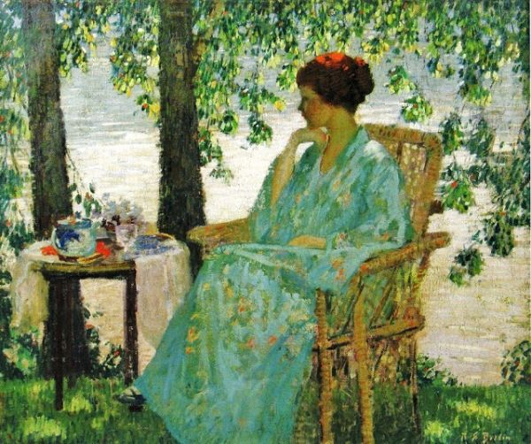 Reverie